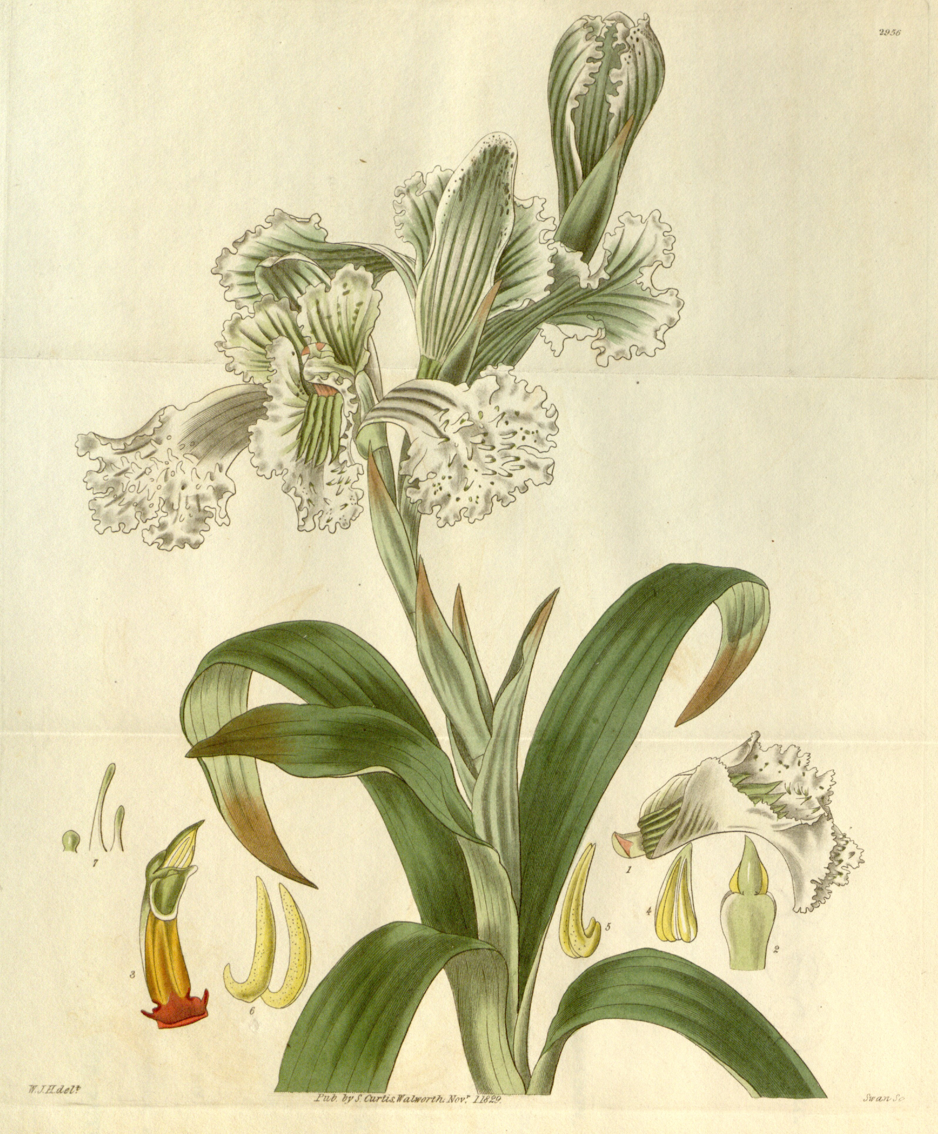 Illustration of Chloraea bletioides (as syn. Ulantha grandiflora (index) and Neottia? grandiflora (plate and description))